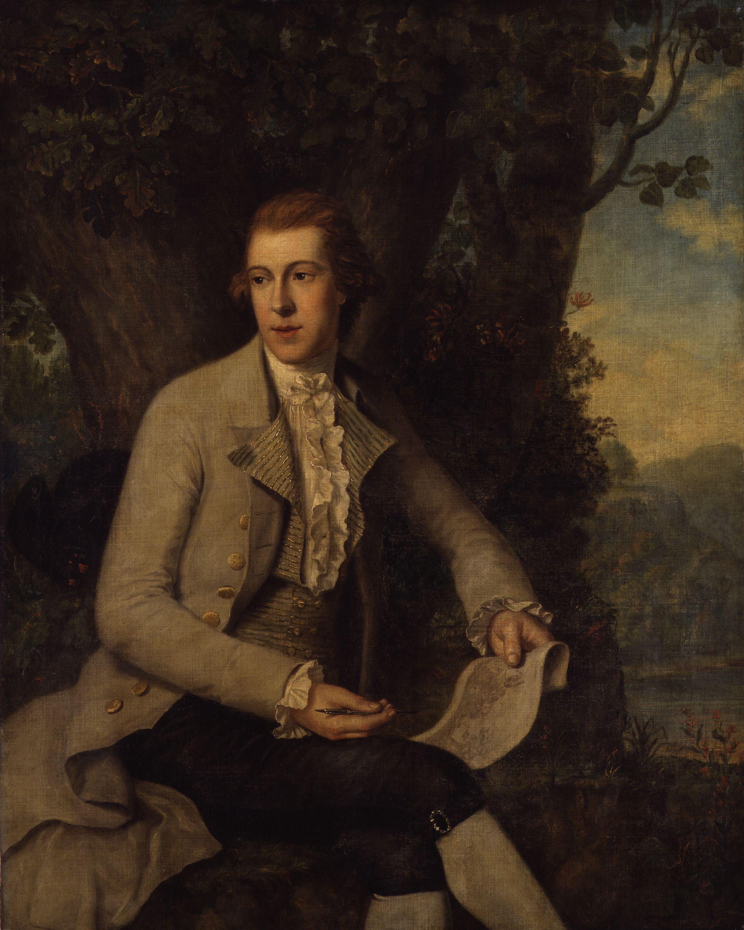 Robert Pollard, by Richard Samuel, given to the National Portrait Gallery, London in 1895. He was an engraver. All images in this batch have a known author, but have manually examined for strong evidence that the author was dead before 1939, such as approximate death dates, birth dates, floruit dates, and publication dates.